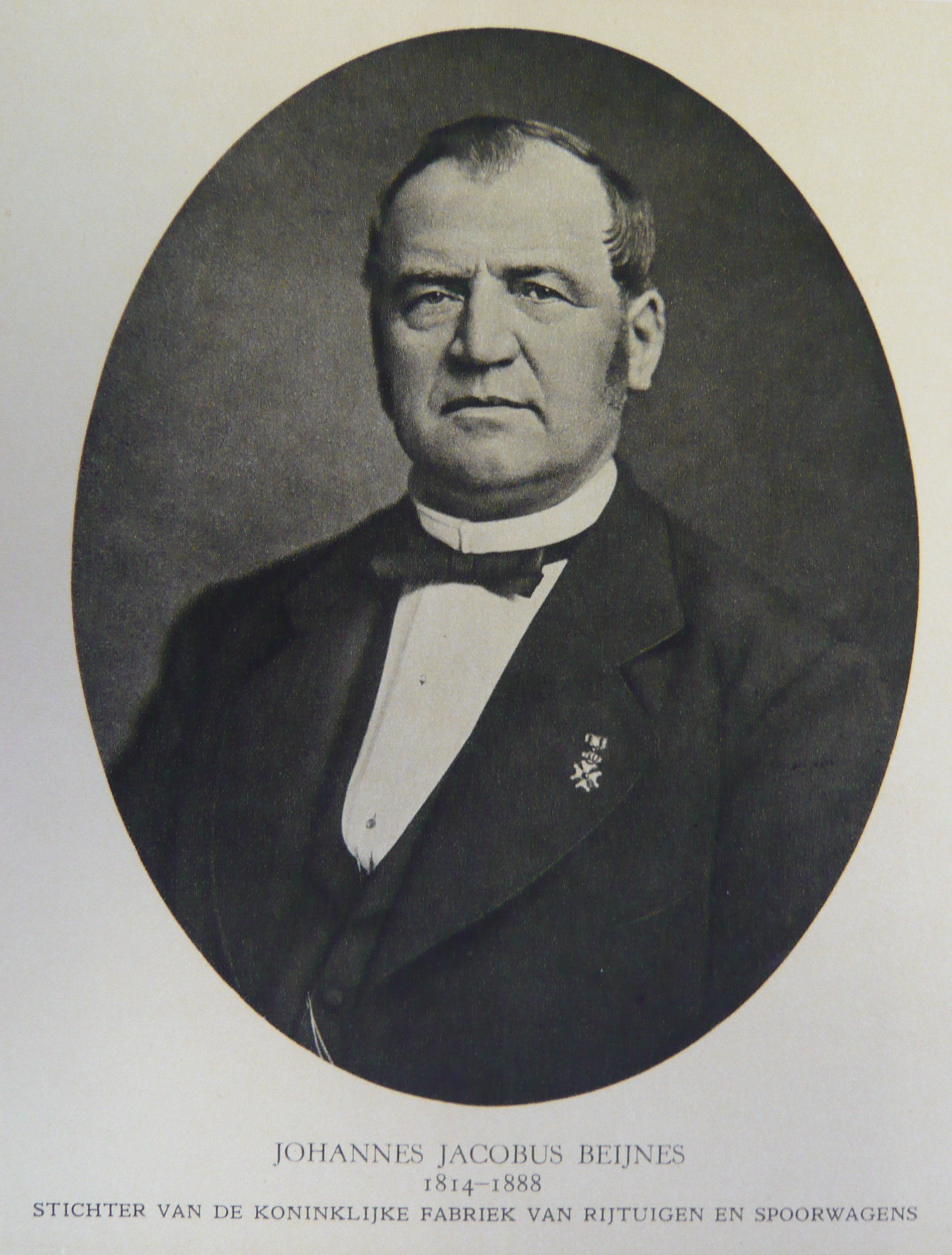 JJ Beijnes carriage factory in operation for 125 years from 1838-1963 that serviced horse carriage owners, trams, trains and busses, Stationsplein, Haarlem, Netherlands. Today all that remains is a sports hall and parking garage with the name Beijnes.